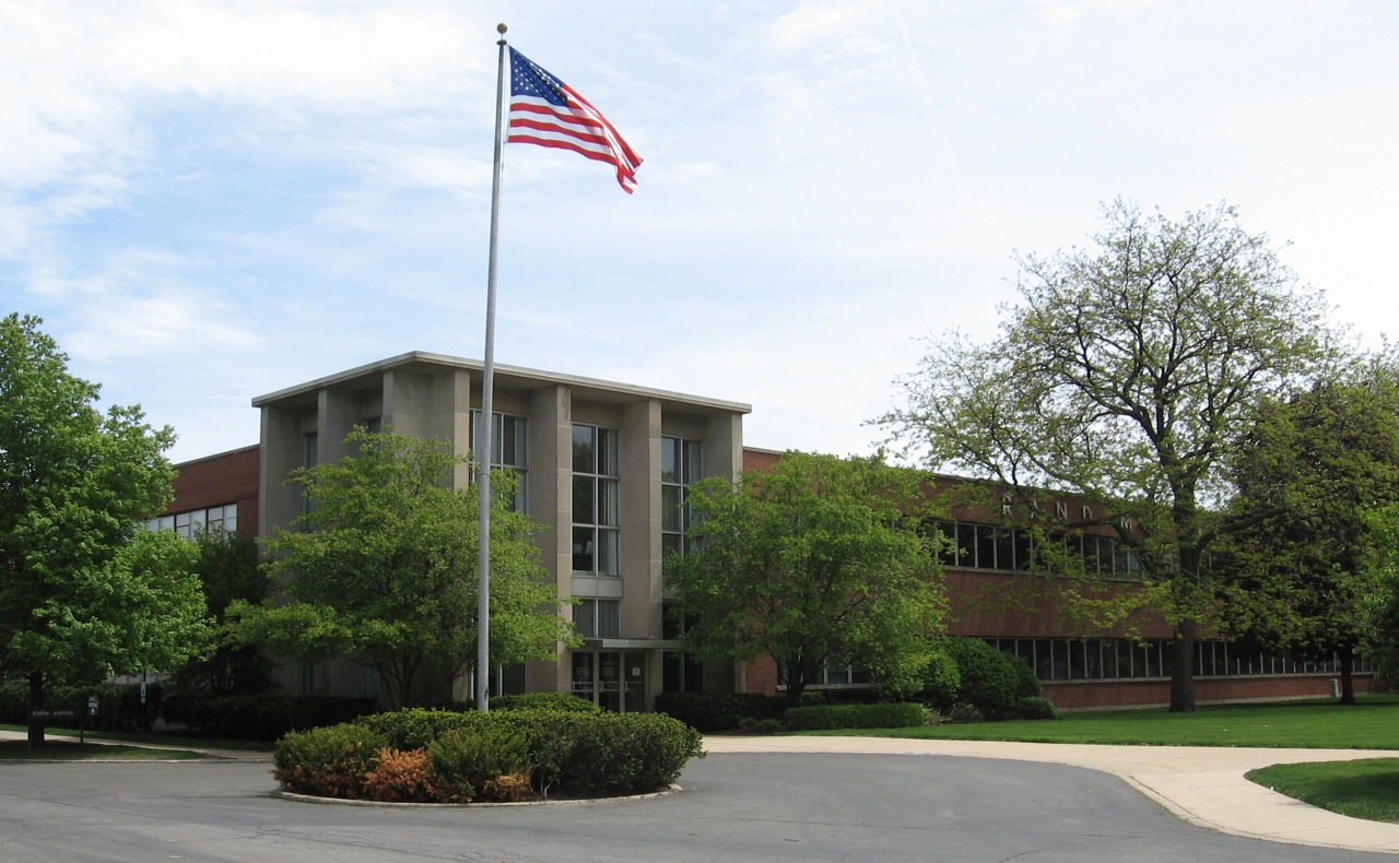 Rand McNally's former corporate headquarters (1952–2009) in Skokie, Illinois.